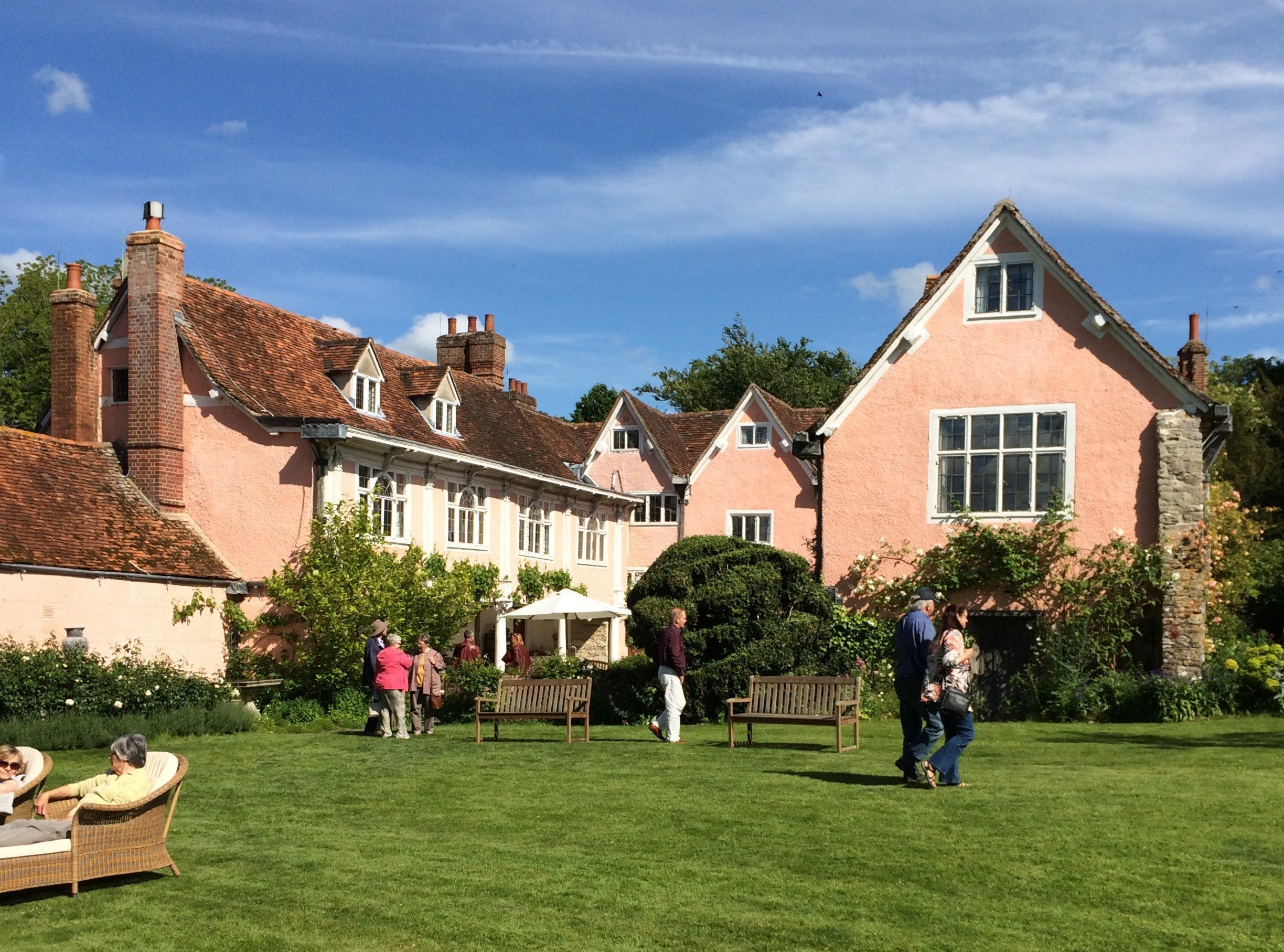 Photograph of Sutton Courtenay Manor taken by me at the National Gardens Scheme Open Day 6th June 2015. Cut down from original to concentrate on the house.